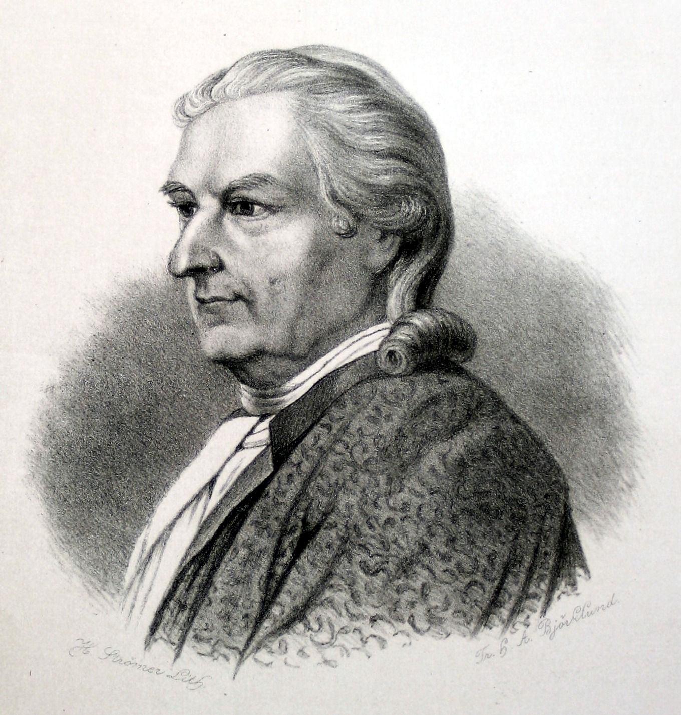 Portrait of Anders Nordencrantz from the book "Svenska industriens män" (1875)